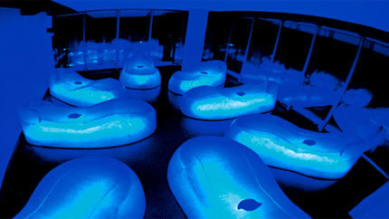 Caracalla Thermal Spa, Baden-Baden